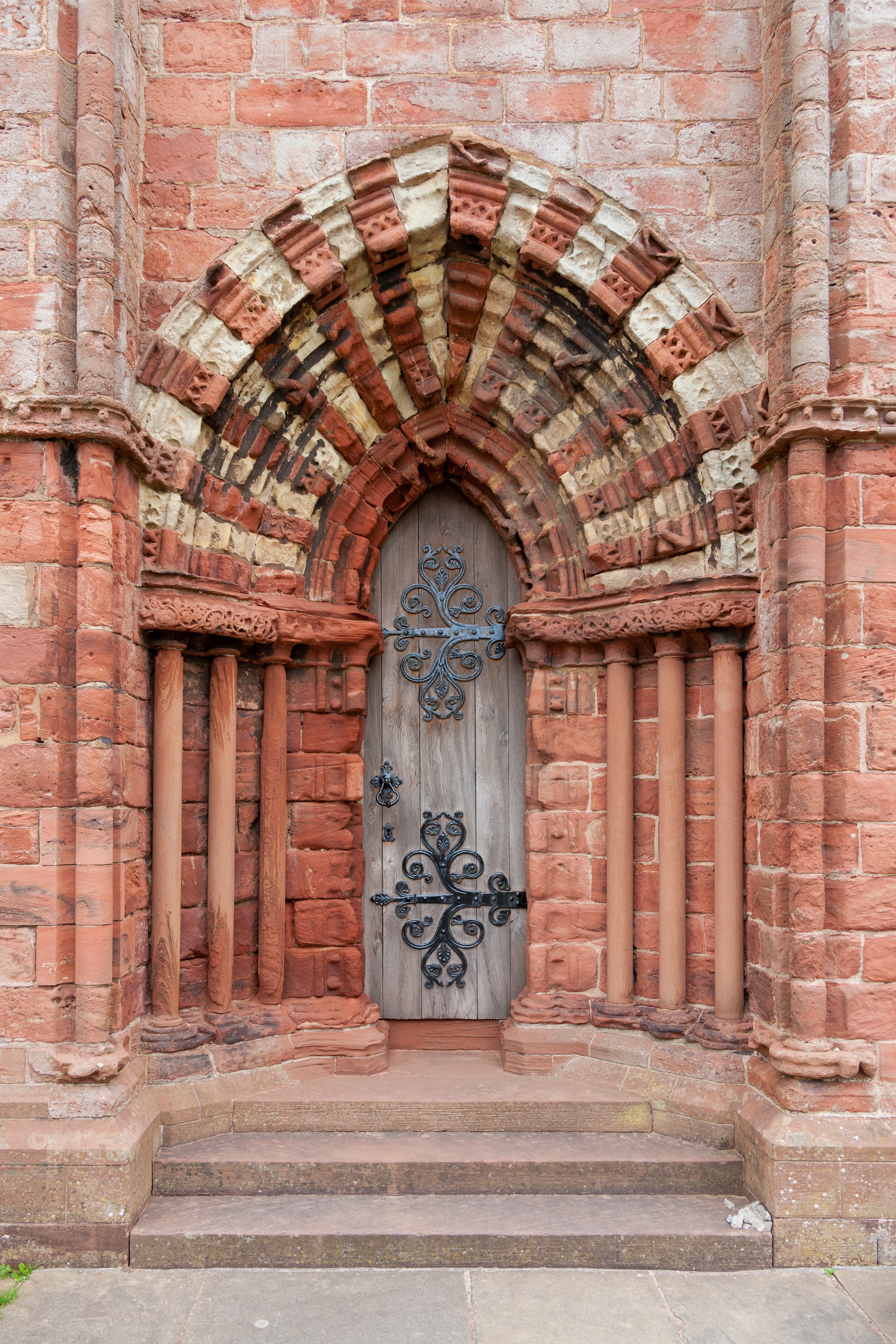 Doorway detail, St Magnus Cathedral, Kirkwall, Orkney Wikidata has entry Q732112 with data related to this item.